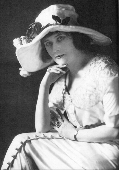 Theda Bara, James Abbe's photo, 1920